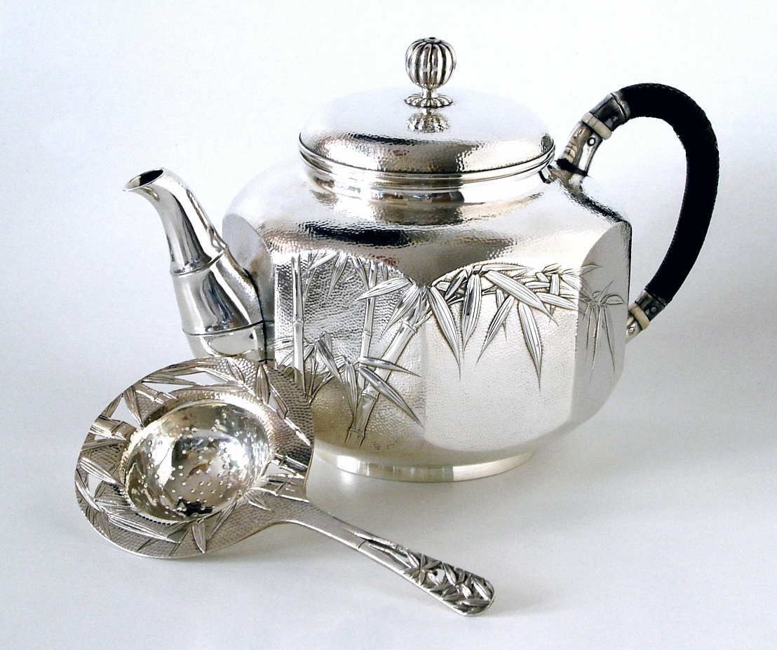 A Japanese teapot i pure silver with a tea-strainer belonging to it.